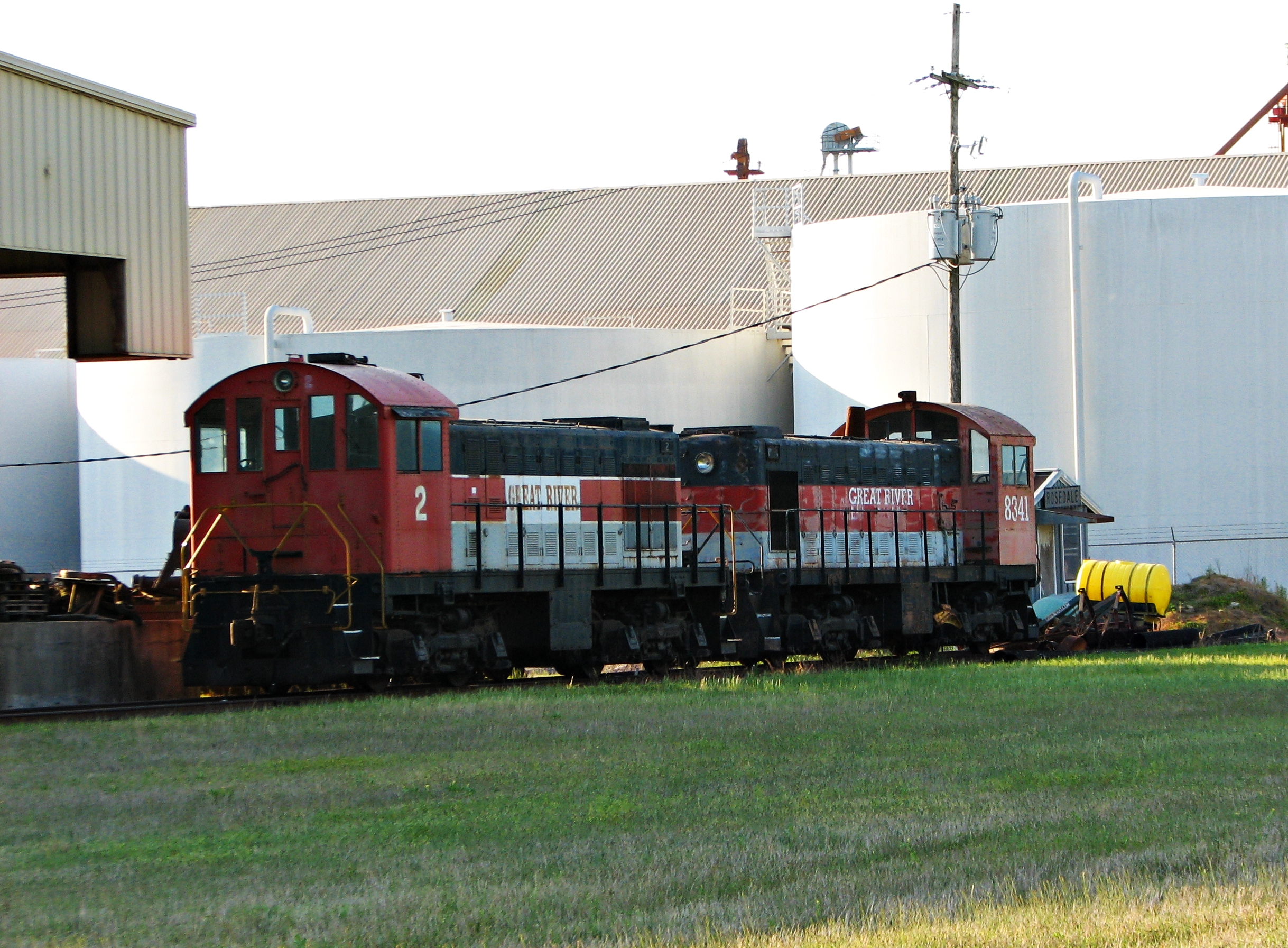 GTR's two Alco switchers in storage at the Port of Rosedale.